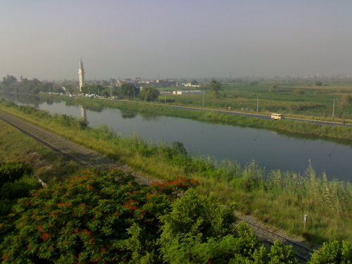 Ibrahimia Canal in Minya, Minya Governorate - Egypt.